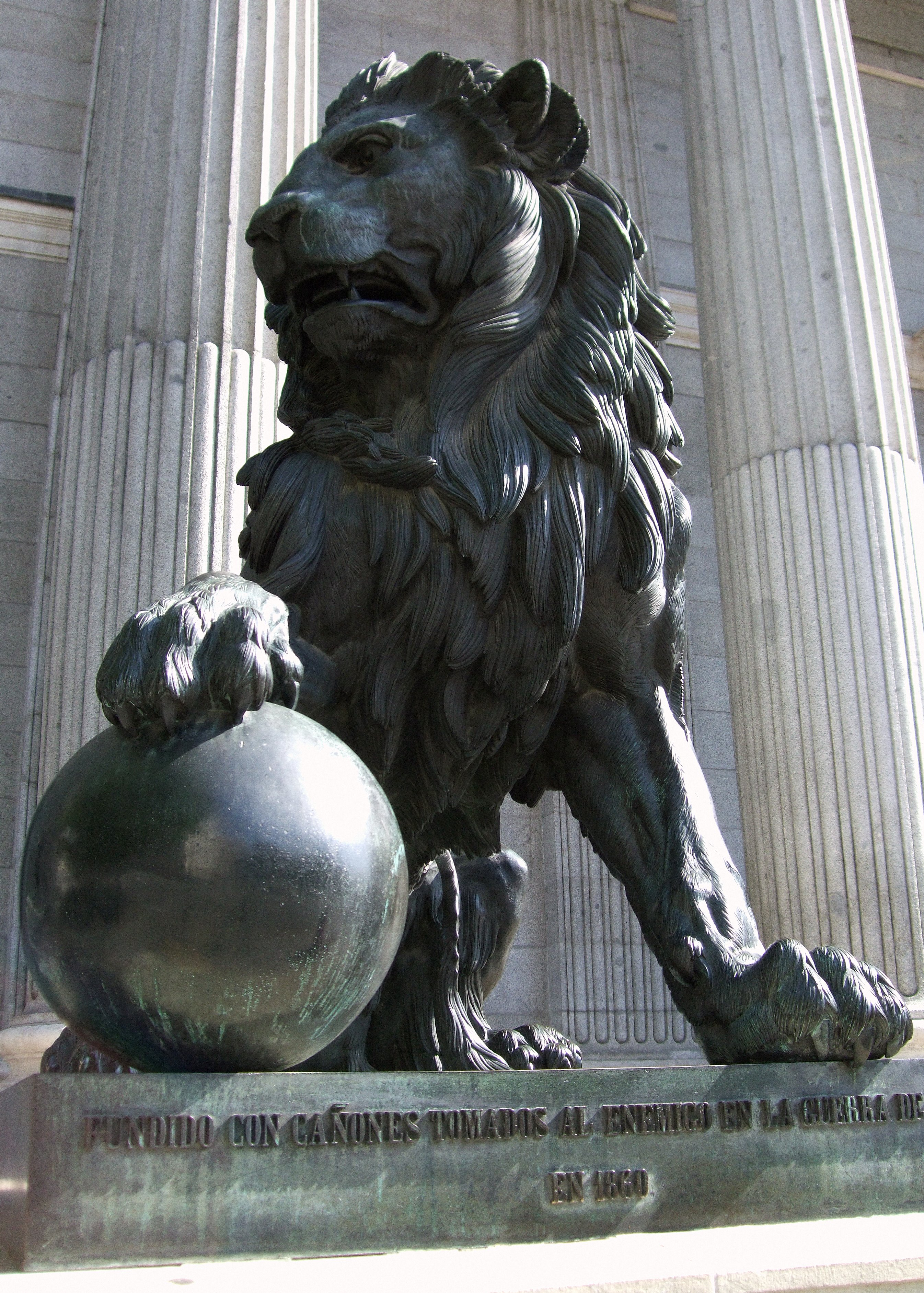 One of the two bronze lions outside the Spanish Congress of Deputies building, in Madrid. They were sculpted by Ponciano Ponzano.